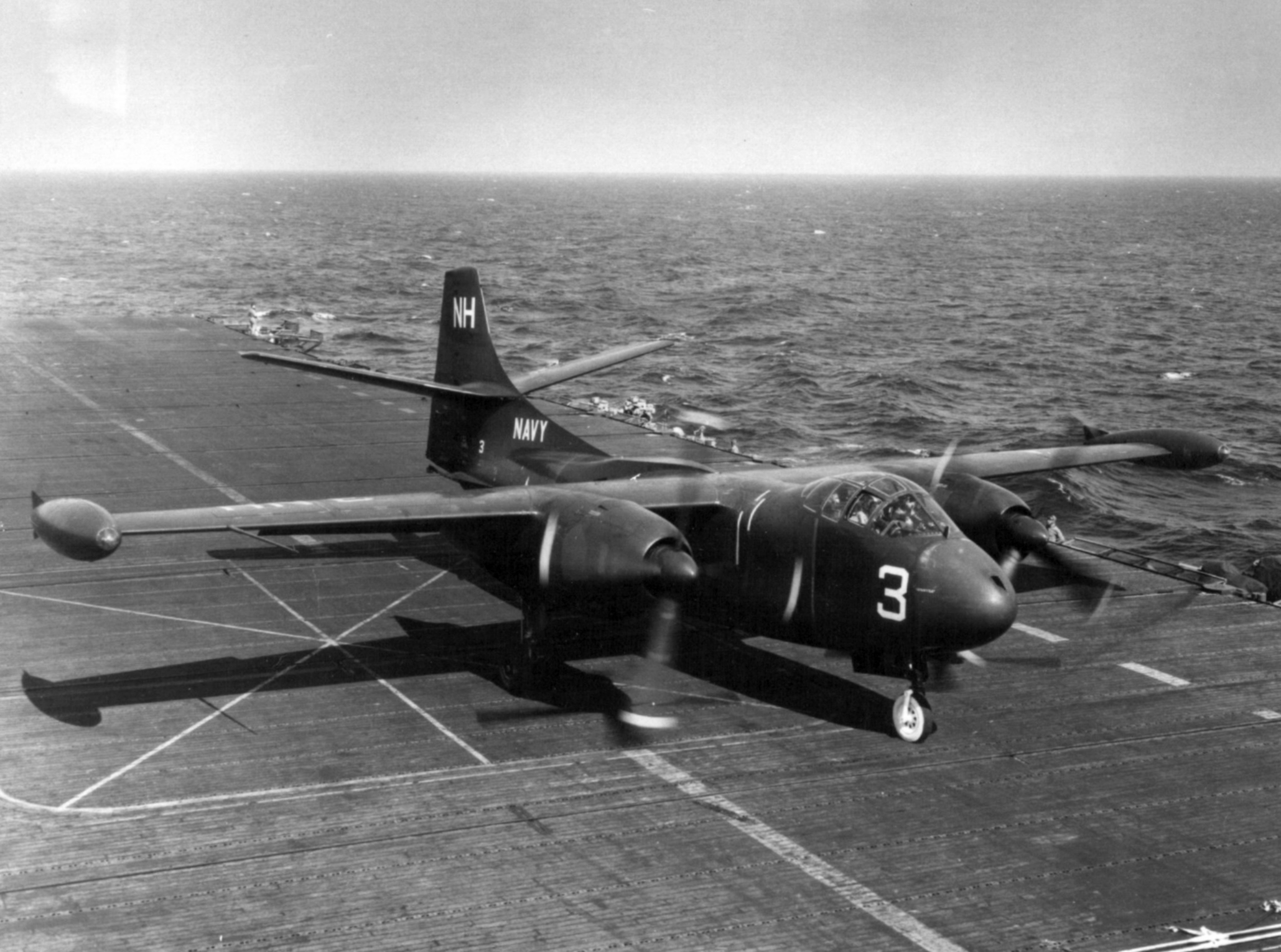 A U.S. Navy North American AJ-1 Savage from Composite Squadron VC-7 Det.48 Peacemakers of the Fleet on deck of the aircraft carrier USS Wasp (CVA-18). VC-7 Det.48 was assigned to Carrier Air Group 17 (CVG-17) aboard the Wasp during that carrier's world cruise from Norfolk, Virginia (USA) to San Diego, California (USA) from 16 September 1953 to 1 May 1954. Note the white front wheel.